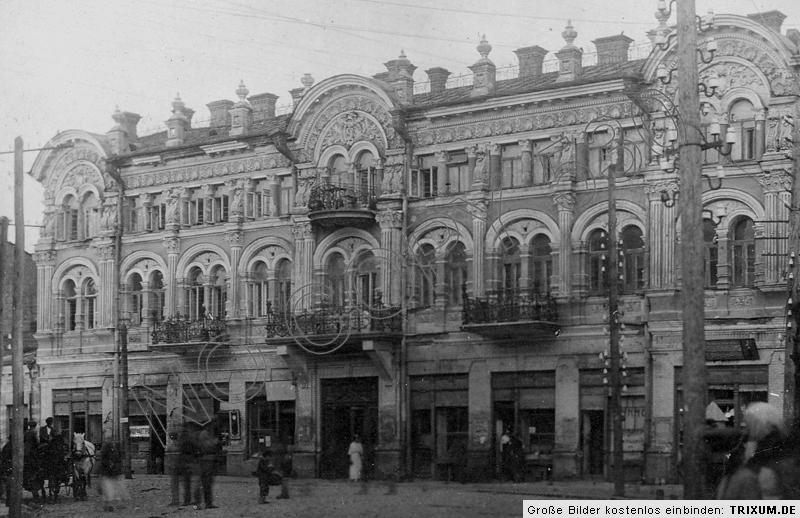 old building